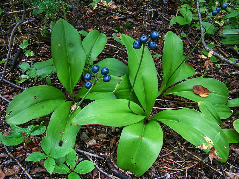 Deer Lake, Western Newfoundland, Canada. Blue-bead lily, or clintonia borealis.